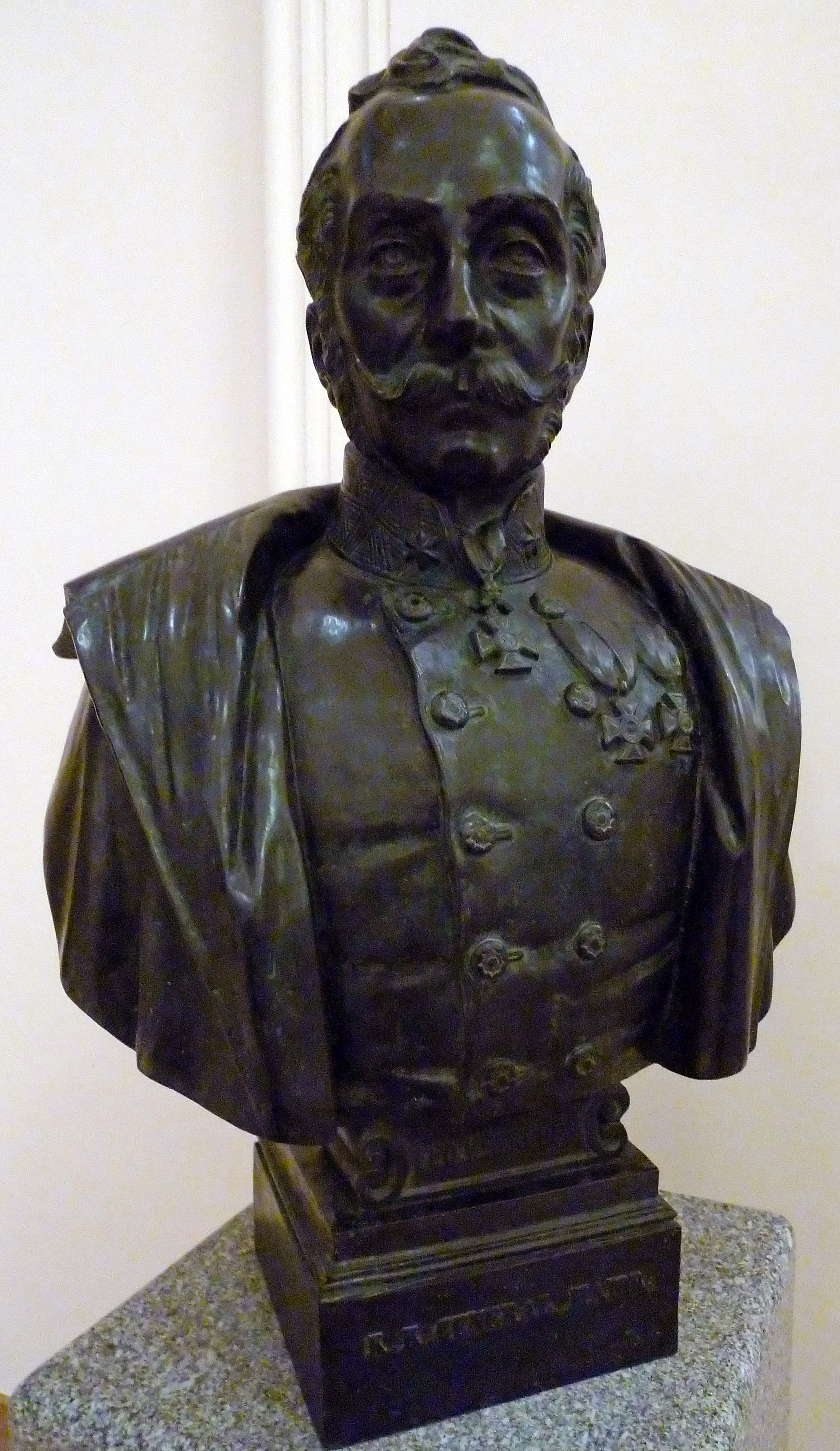 Ludwig August Ritter von Benedek (14 July 1804 – 27 April 1881), Austrian general. Bronze bust, Heeresgeschichtliches Museum Wien.